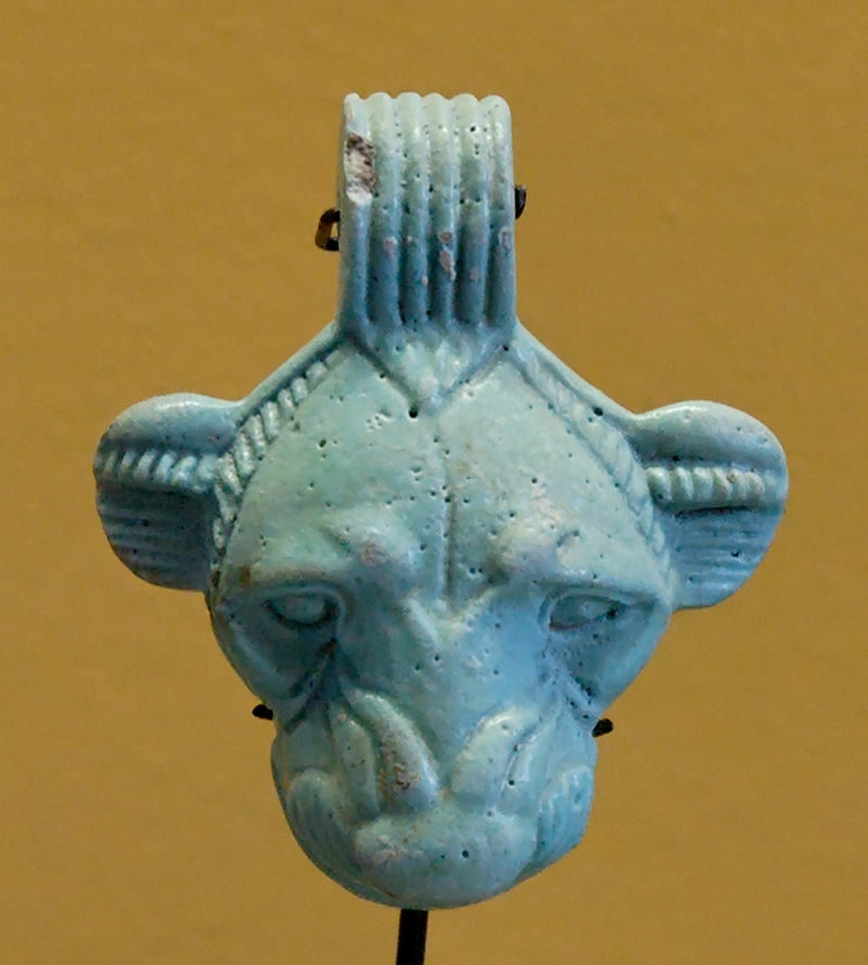 Amulet-pendant with lioness head. Earthenware, Achaemenid artwork, late 6th–4th centuries BC. From the Royal City of Susa.